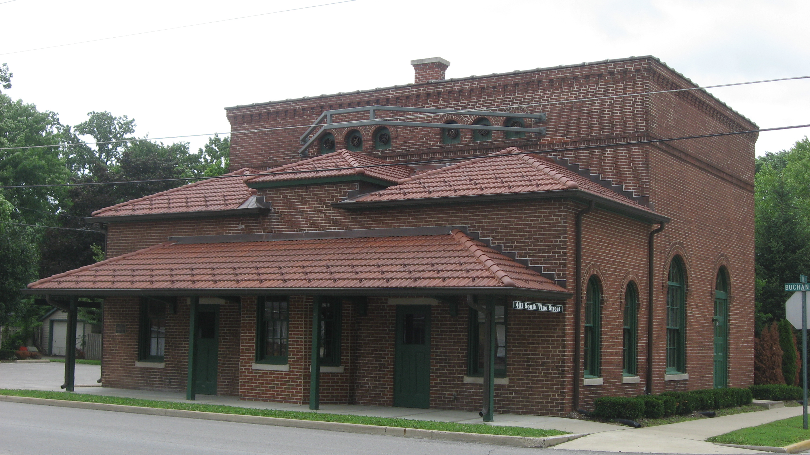 Front and western side of the THI and E Interurban Depot-Substation, located at 401 S. Vine Street in Plainfield, Indiana, United States. Built in 1907, it is listed on the National Register of Historic Places.